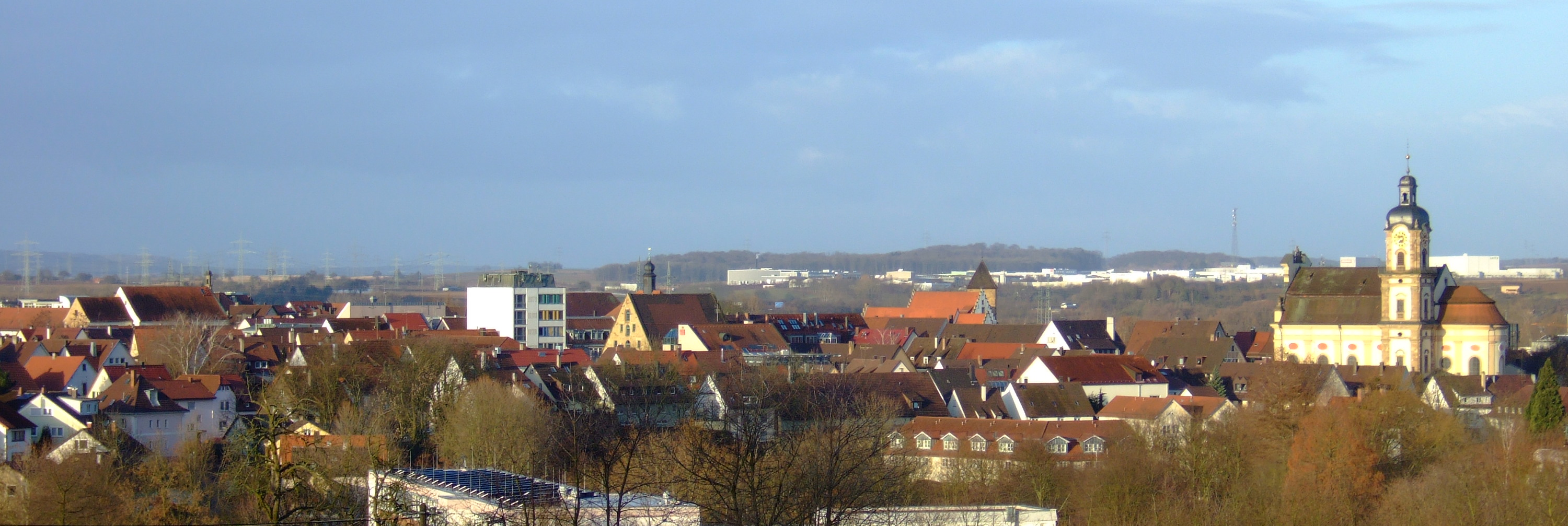 Panoramic View of the City Neckarsulm, from the East